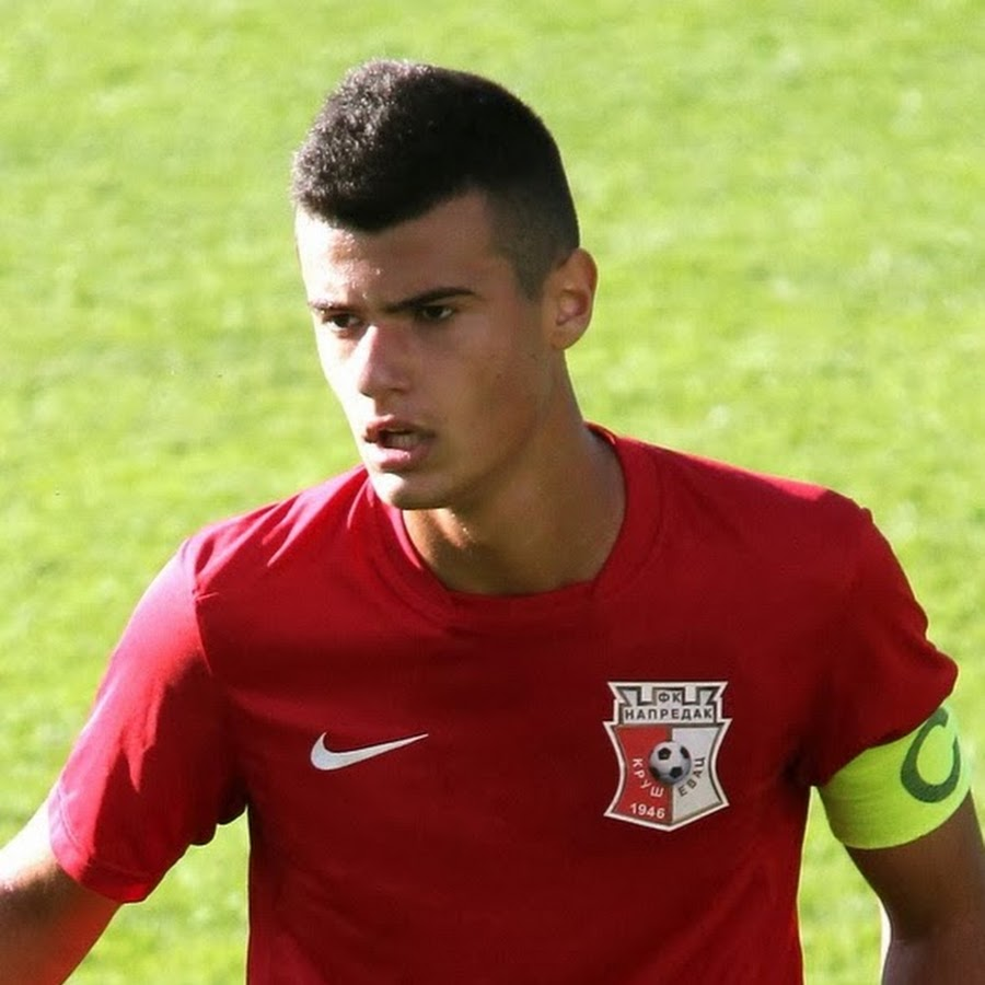 An image of footballer Marko Stanojevic from Krusevac